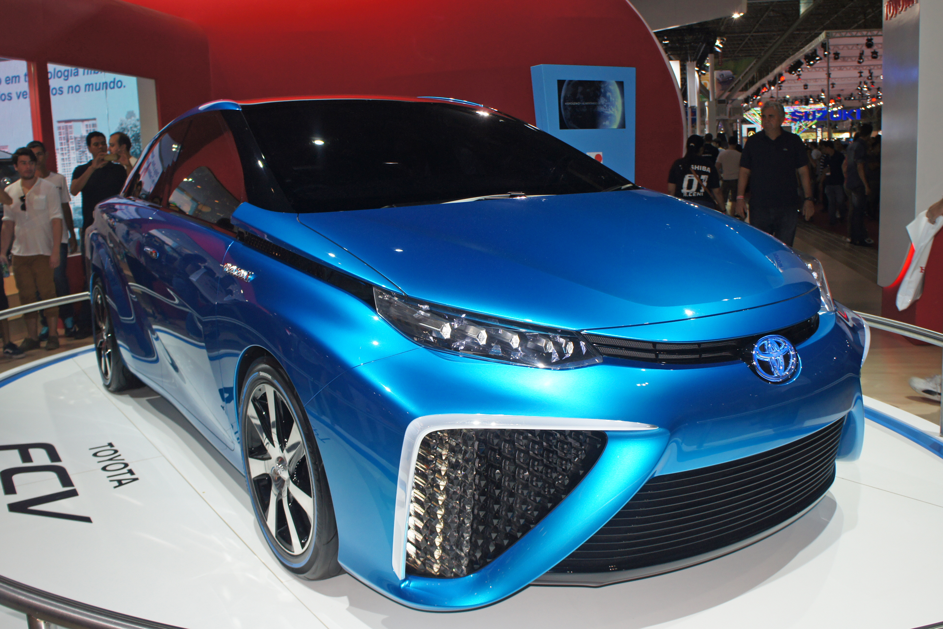 Toyota FCV Concept car exhibited at the Salão Internacional do Automóvel 2014 São Paulo, Brazil